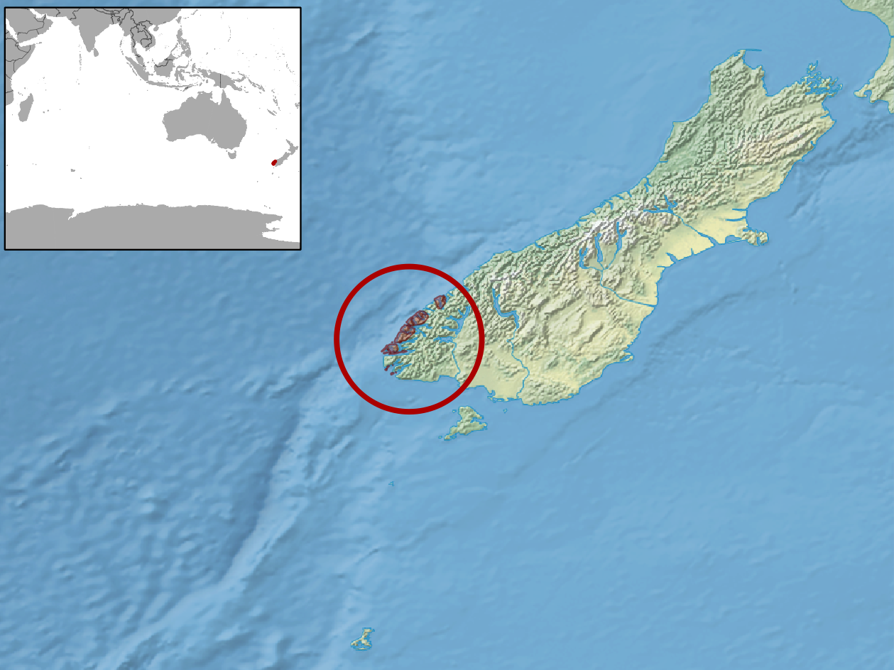 geographic distribution of Oligosoma acrinasum